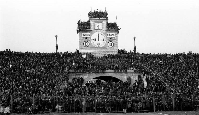 Attendance at a football match between Universitatea Craiova and Dinamo Bucuresti in 1973.